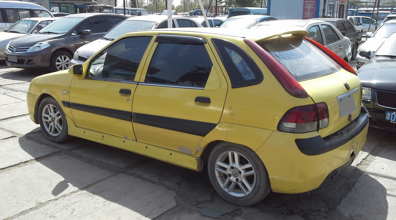 Shanghai Maple Haixun hatch photographed in Tianjin, China.